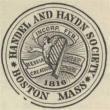 Emblem of the Handel and Haydn Society